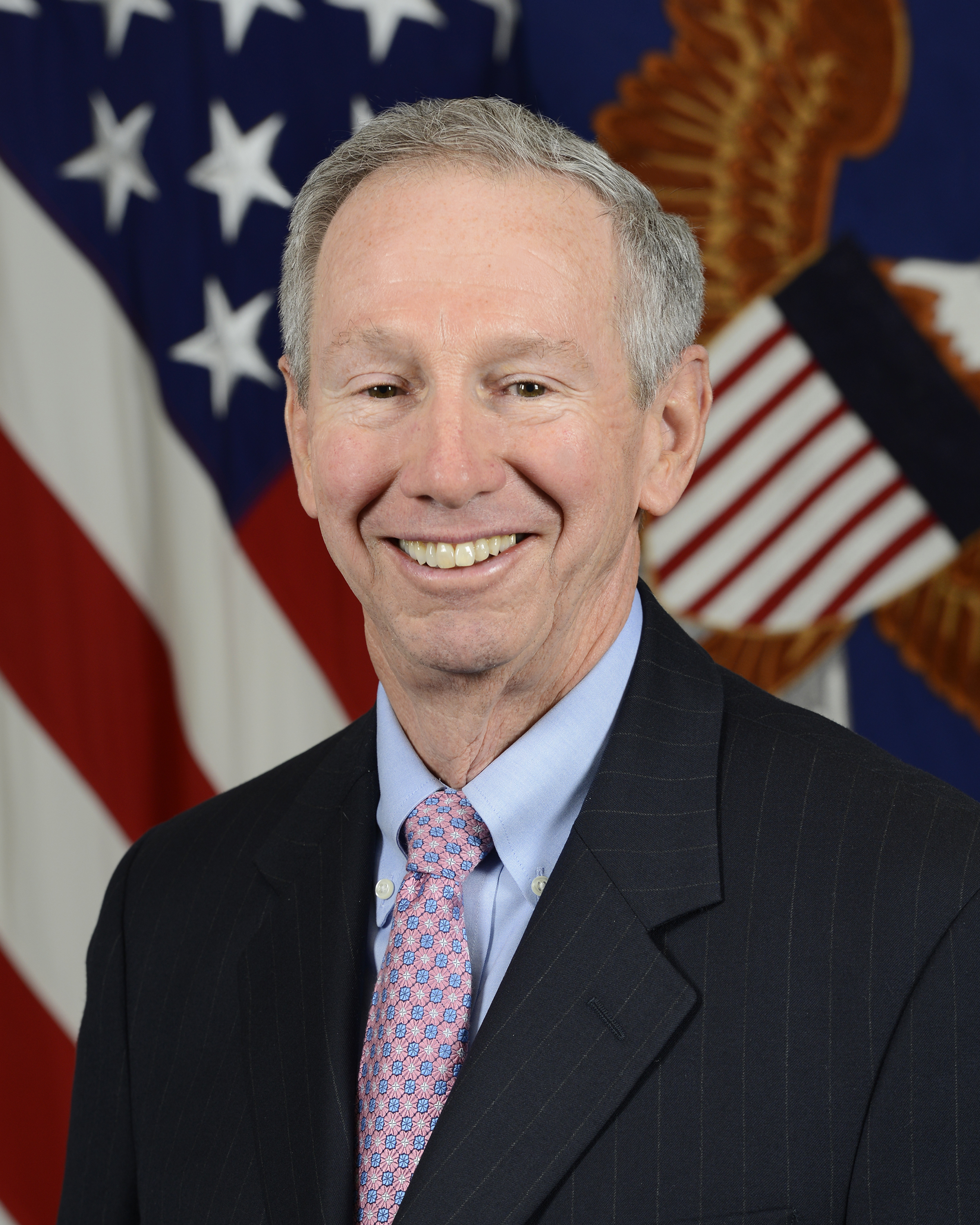 Dr. Michael D. Griffin, Under Secretary of Defense for Research and Engineering, poses for his official portrait in the Army portrait studio at the Pentagon in Arlington, Virginia, Feb. 26, 2018. (U.S. Army photo by Monica King)